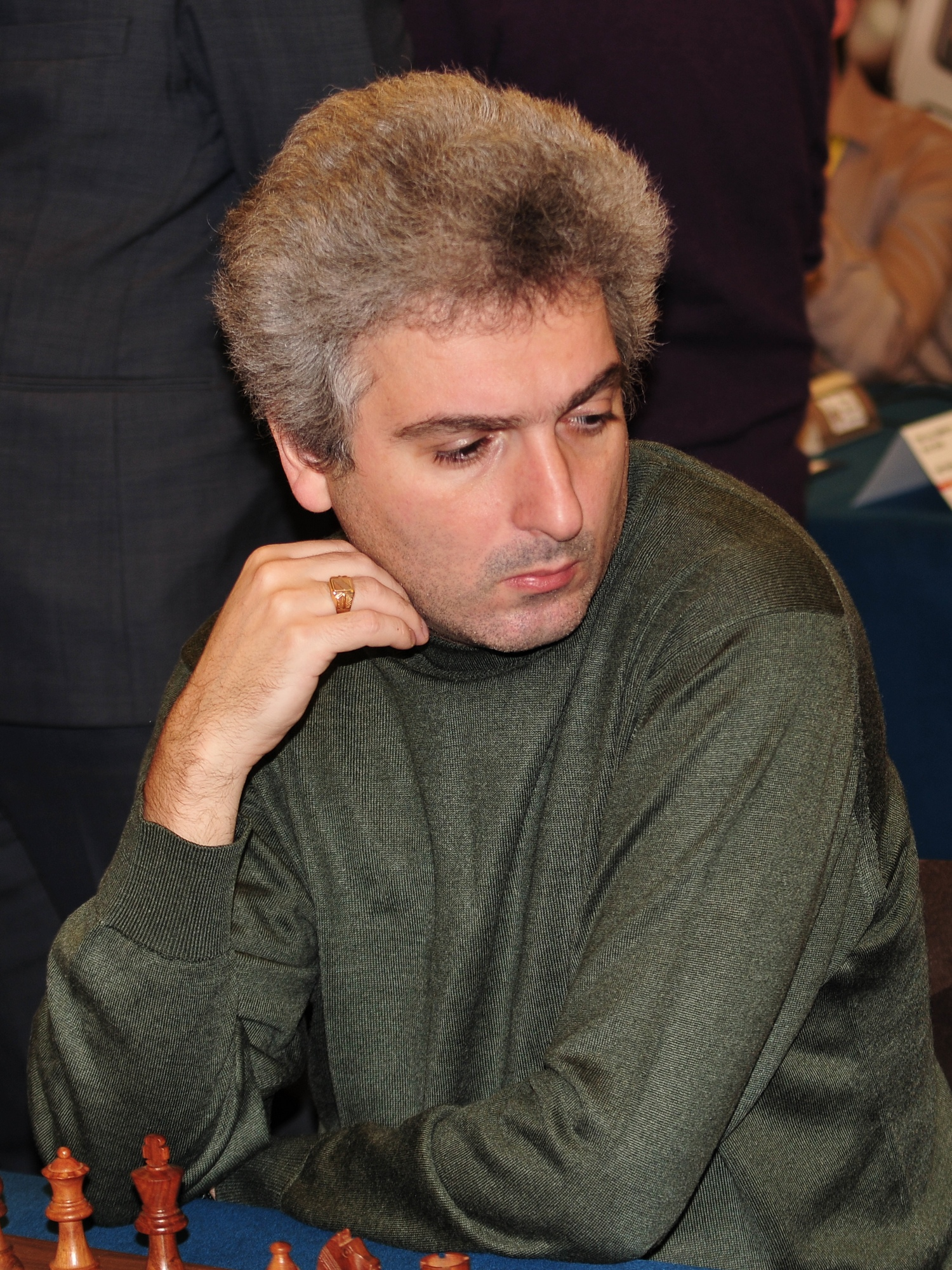 GM Vladimir Akopian, European Chess Team Championship Warsaw 2013